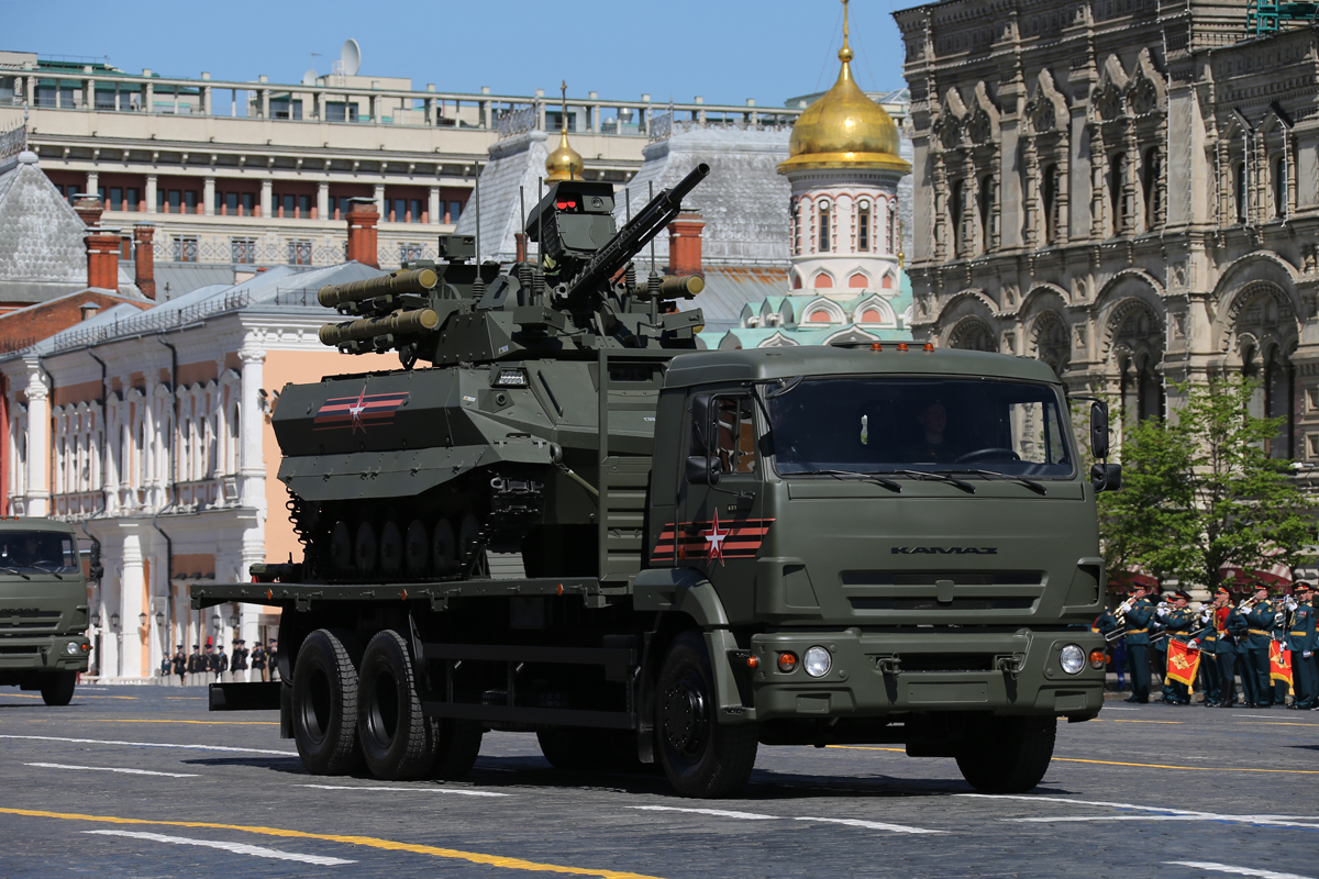 Uran-9.